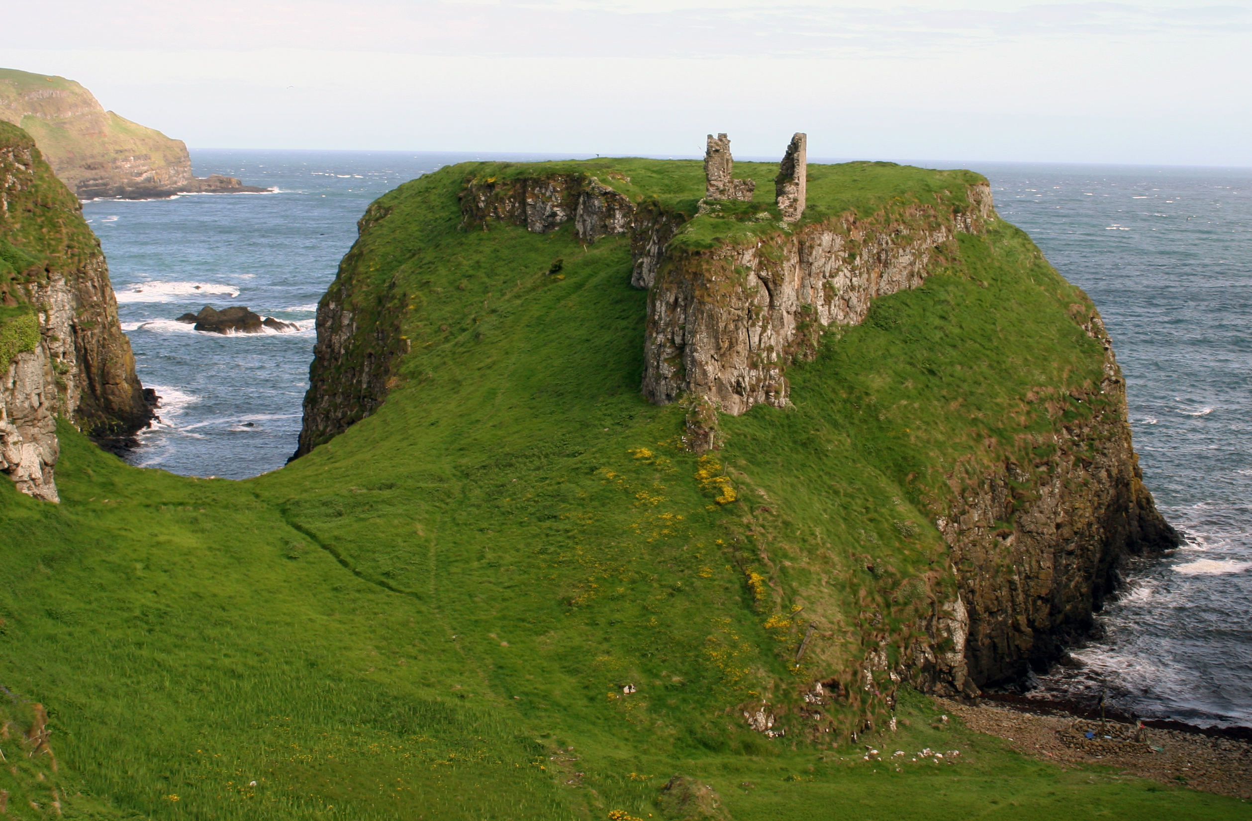 Dunseverick Castle, County Antrim, Northern Ireland. This photograph was taken by me (Peter Dean, Dunsmore, Bucks, UK) on 28 May 2006.